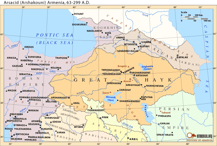 Arsacid (Arshakouni) Armenia, 63-299 A.D.